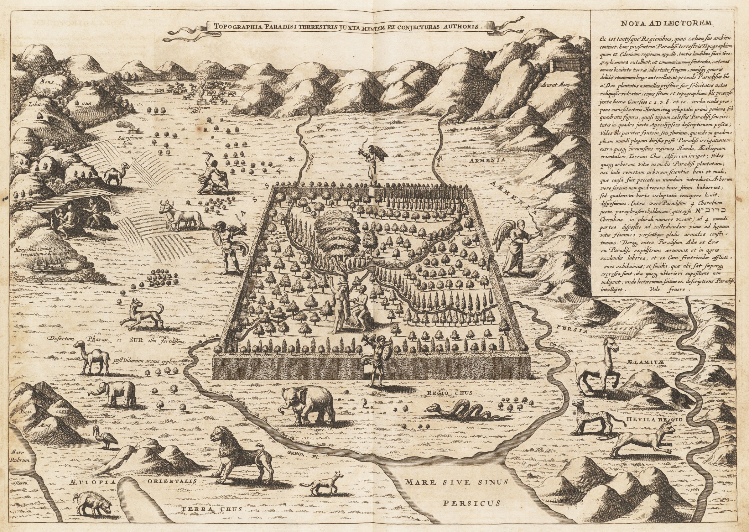 Illustration: "Topographia paradisi" From Athanasii Kircheri è Soc. Jesu Arca Noë, in tres libros digesta, quorum I. De rebus quæ ante Diluvium; II. De iis, quæ ipso Diluvio ejusque diratione; III. De iis, quæ post Diluvium à Noëmo gesta sunt, quæ omnia nova methodo, nec non summa argumentorum varietate, explicantur, & demonstrantur, 1675. GC6 K6323 675a (A), Houghton Library, Harvard University